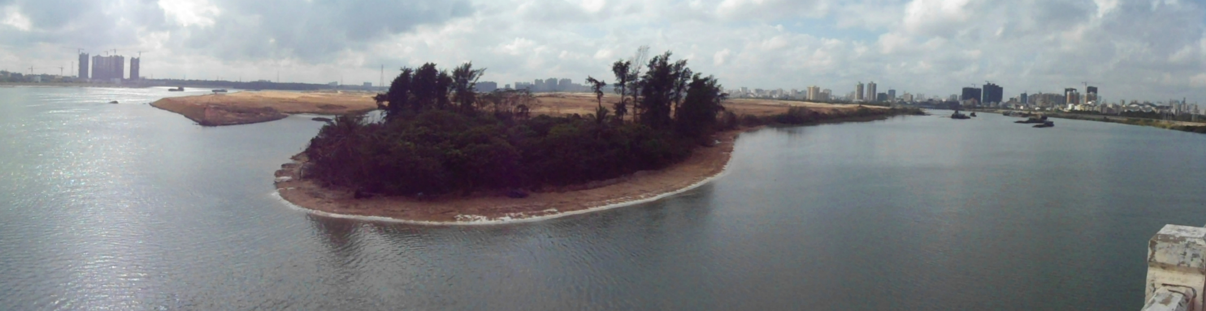 Sima Slope Island, Nandu River, Hainan, China.